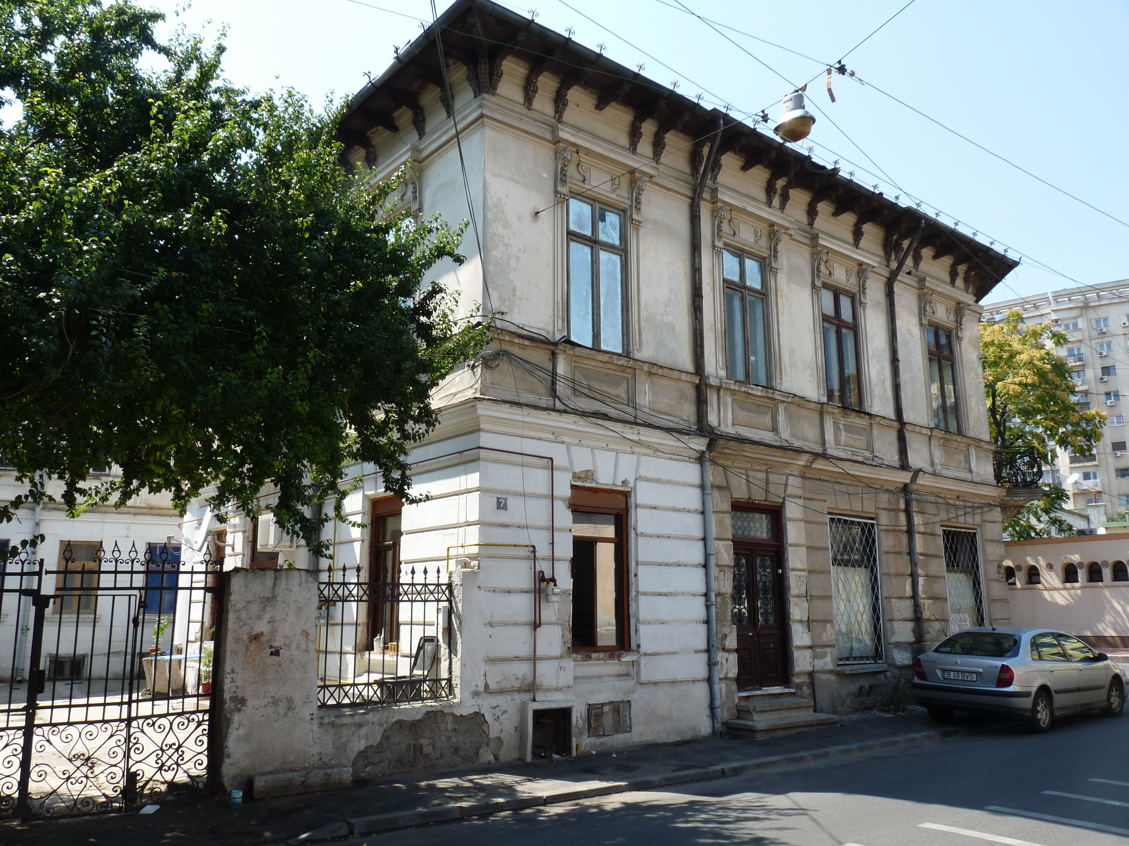 Historic building in Bucharest, Romania, on Gladiolelor street 5-7.